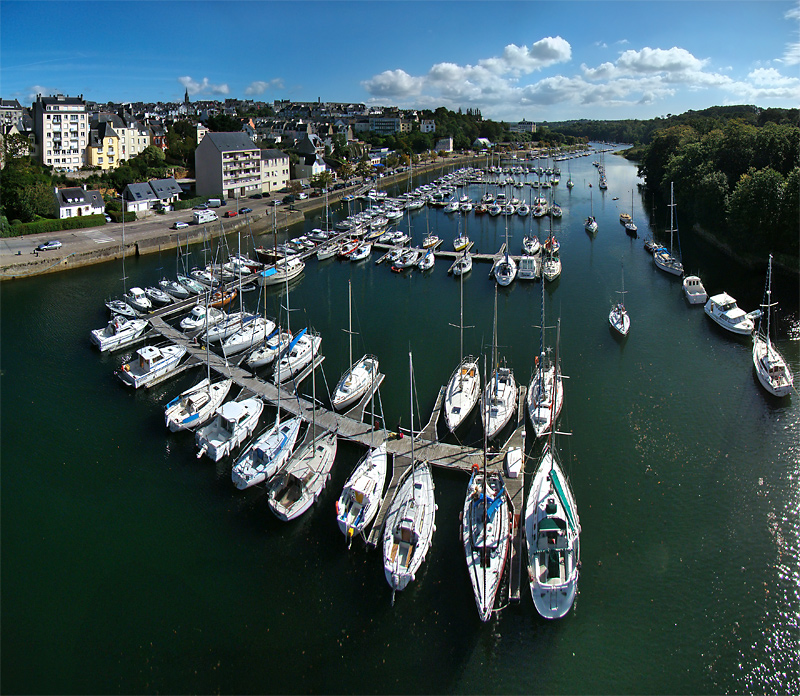 Douarnenez, Finistère, Bretagne, France. Port Rhu viewed upstream (to the south).